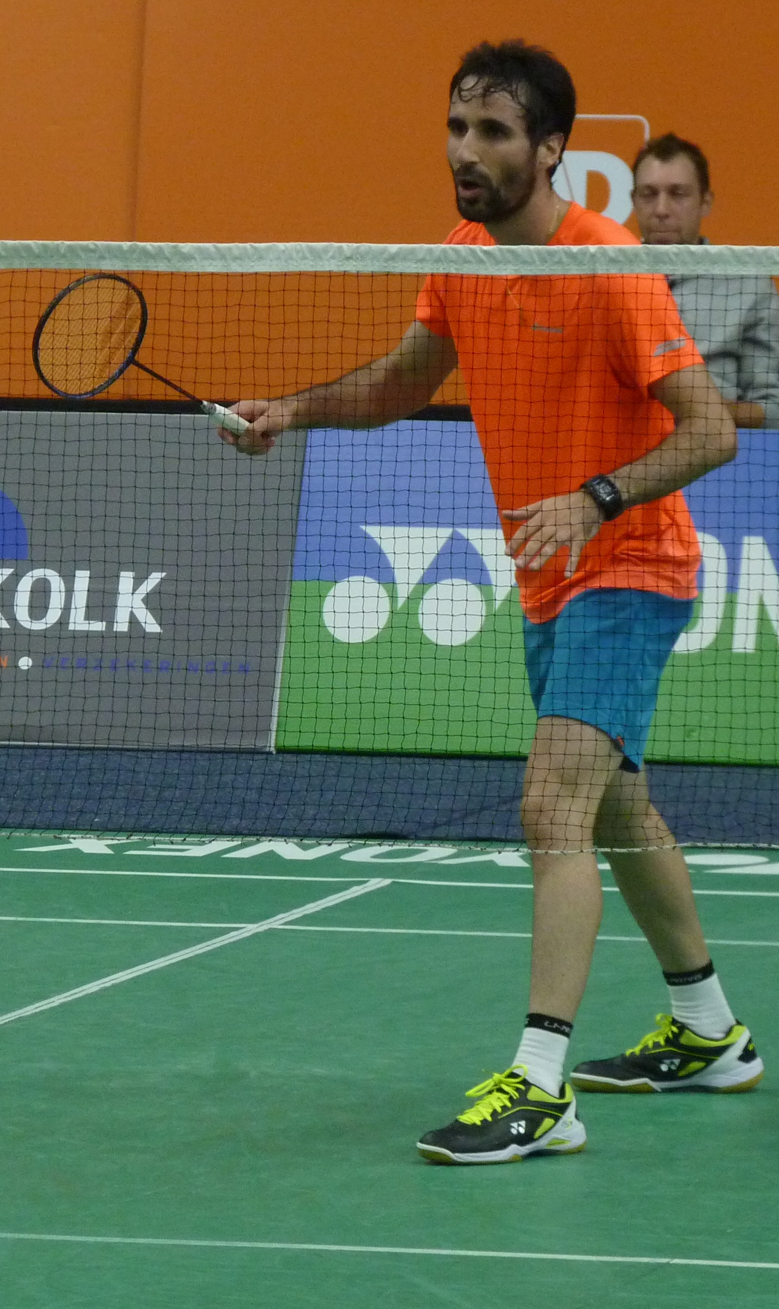 Pablo Abian (SPAIN)